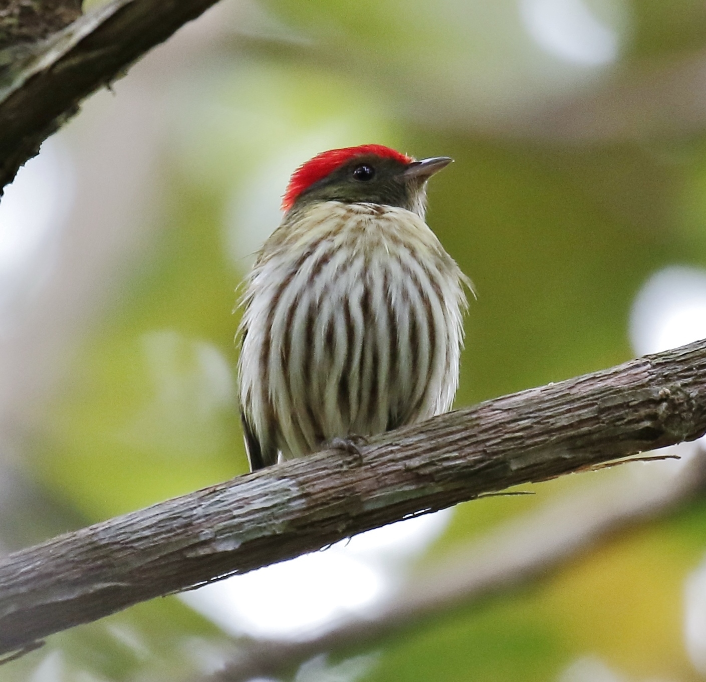 Kinglet manakin (Machaeropterus regulus) (male) at Boa Nova, Bahia, Brazil